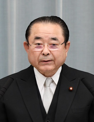 Tanaka Kazunori was inaugurated as Minister for Reconstruction and Minister in charge of Comprehensive Policy Coordination for Revival from the Nuclear Accident at Fukushima on September, 2019